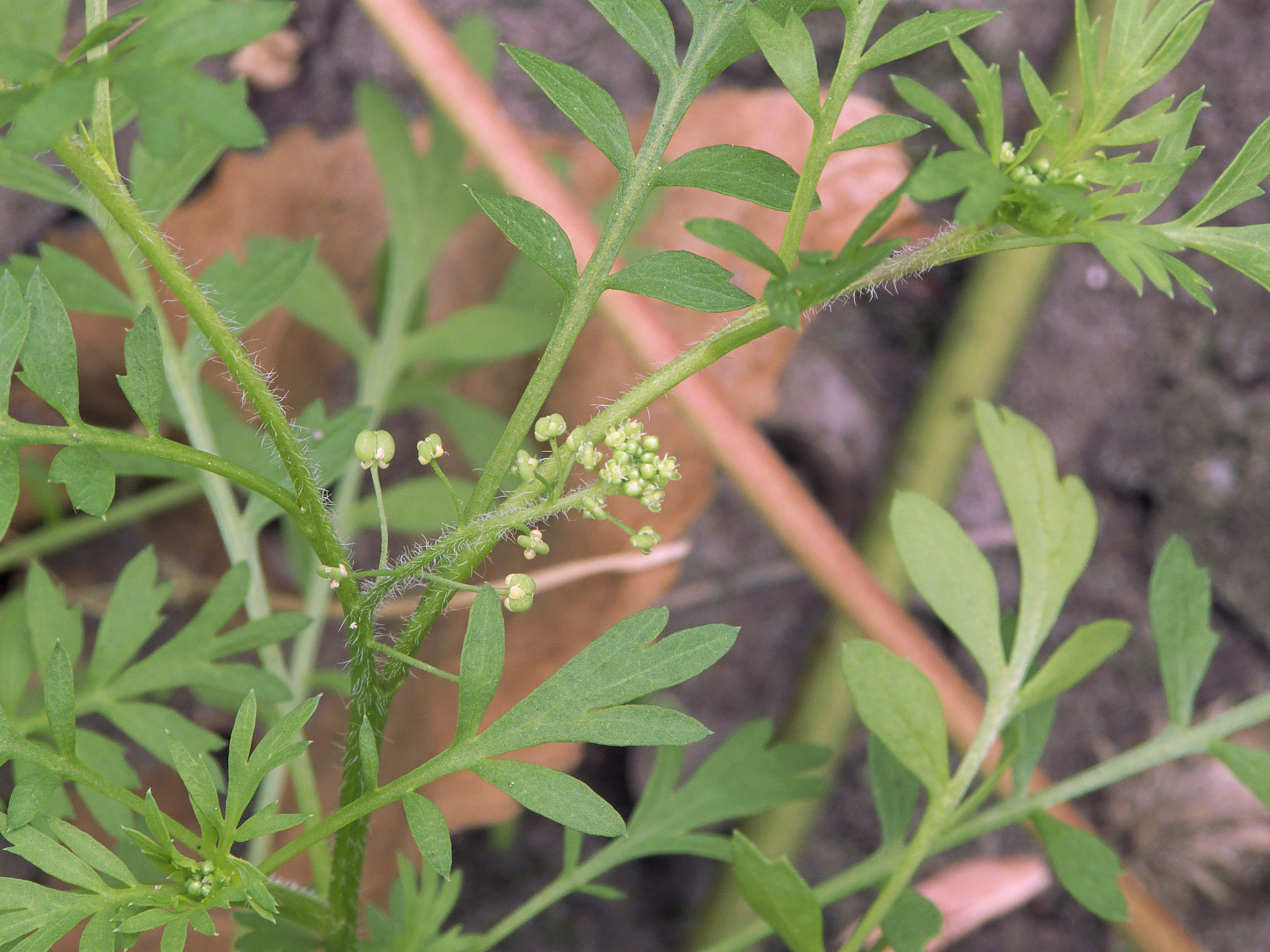 Coronopus didymus inflorescens